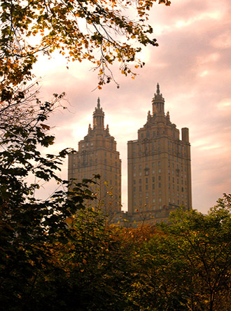 The San Remo Apartments, New York City